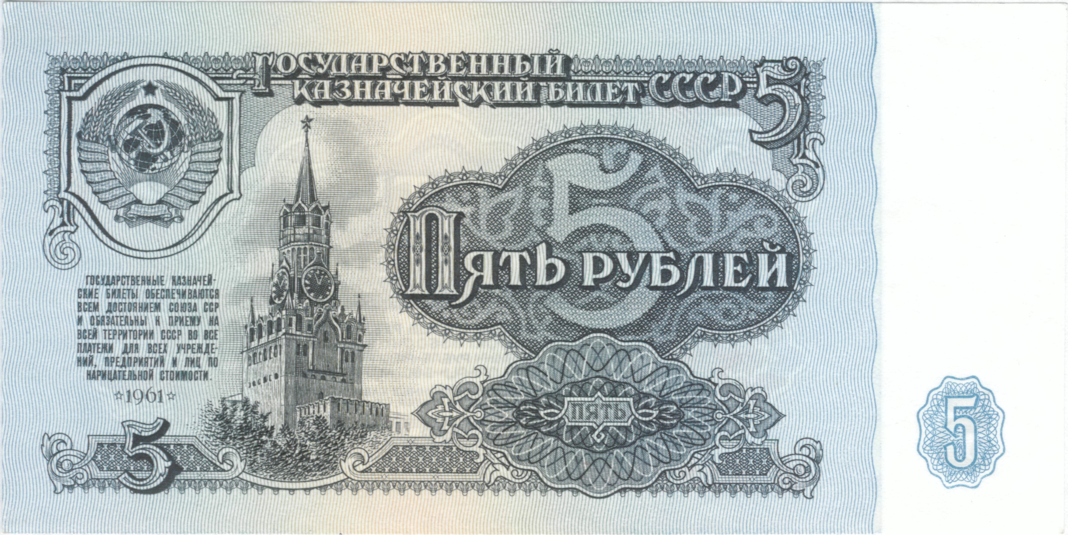 1961 Soviet Union 5 rubles bill. Obverse. Цвет естественный See also other side Image:Soviet_Union-1961-Bill-5-Reverse.jpg